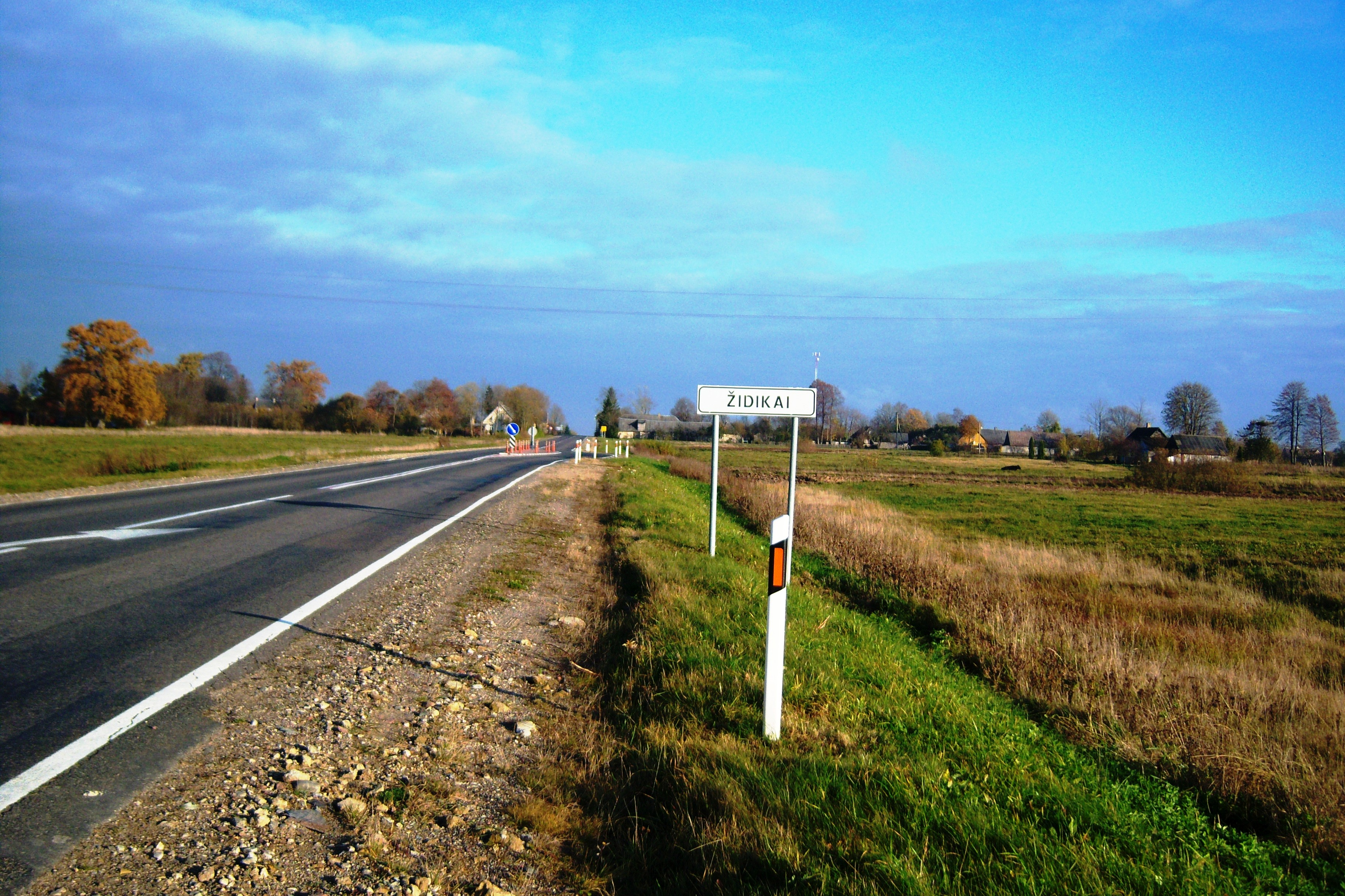 Židikai by the road KK170 Mažeikiai-Skuodas, Lithuania